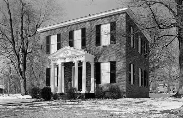 Eagle Lodge, 142 West King Street, Hillsborough (Orange County, North Carolina) - cropped This file comes from the Historic American Buildings Survey (HABS), Historic American Engineering Record (HAER) or Historic American Landscapes Survey (HALS). These are programs of the National Park Service established for the purpose of documenting historic places. Records consist of measured drawings, archival photographs, and written reports. When reusing please credit: Library of Congress, Prints & Photographs Division, NC,68-HILBO,6-2 This tag does not indicate the copyright status of the attached work. A normal copyright tag is still required. See Commons:Licensing. This work is in the public domain in the United States because it is a work prepared by an officer or employee of the United States Government as part of that person’s official duties under the terms of Title 17, Chapter 1, Section 105 of the US Code. Note: This only applies to original works of the Federal Government and not to the work of any individual U.S. state, territory, commonwealth, county, municipality, or any other subdivision. This template also does not apply to postage stamp designs published by the United States Postal Service since 1978. (See § 313.6(C)(1) of Compendium of U.S. Copyright Office Practices). It also does not apply to certain US coins; see The US Mint Terms of Use. This file has been identified as being free of known restrictions under copyright law, including all related and neighboring rights. Object location36° 04′ 31″ N, 79° 05′ 59″ W